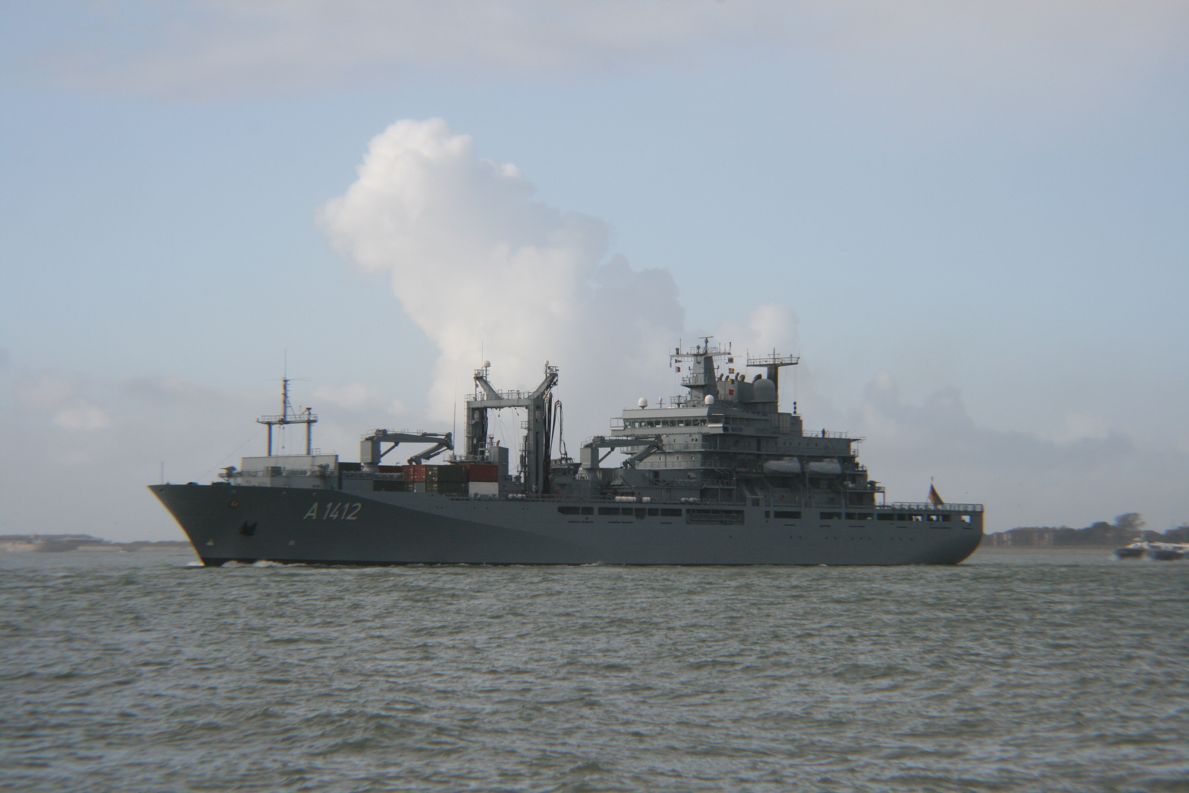 The German Navy naval replenishment oiler Frankfurt am Main (A1412) departing Portsmouth Naval Base, UK, 26th January 2009.